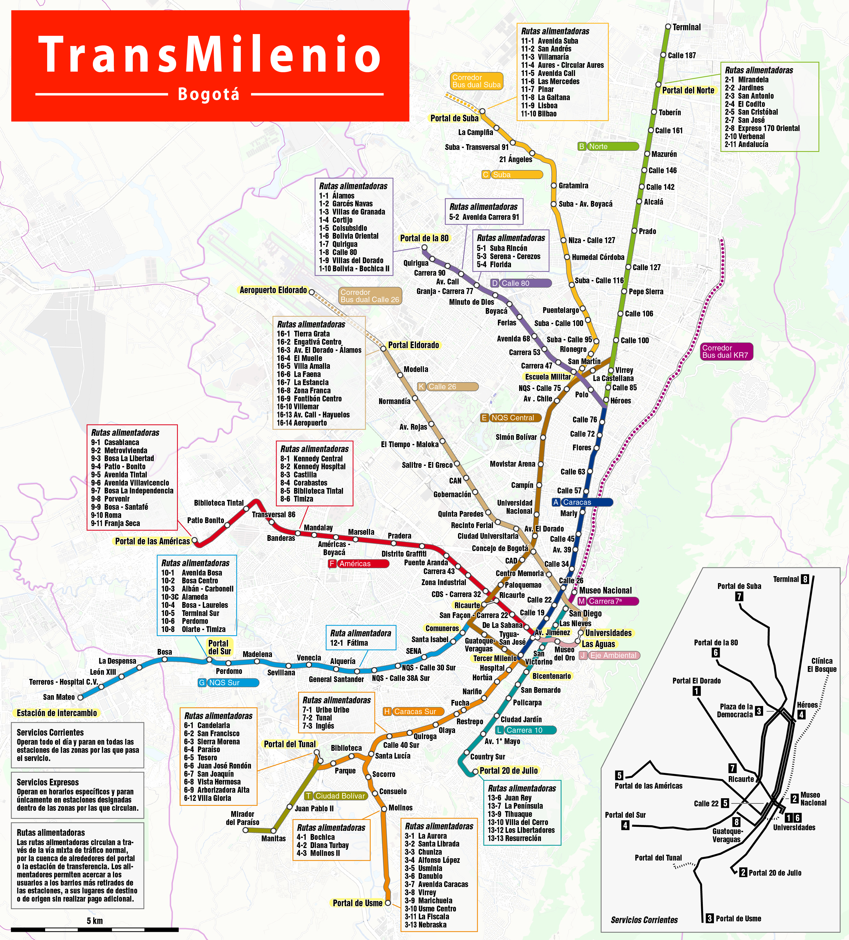 Map of the TransMilenio BRT system in Bogota